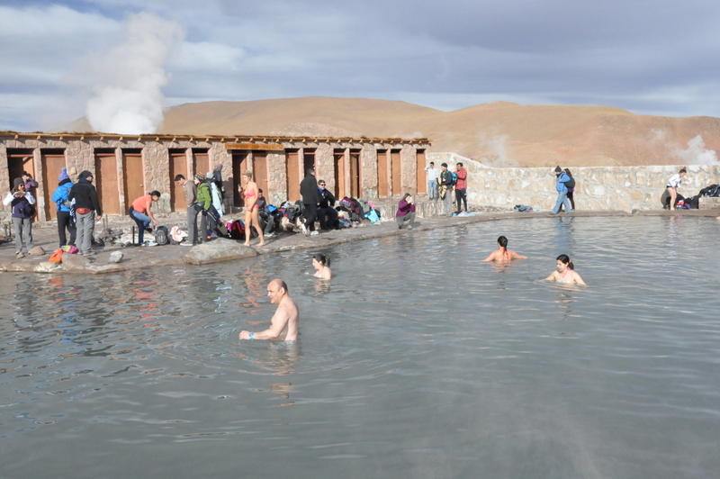 Hot prings near Tatio geyser field, Antofagasta Region, Chile